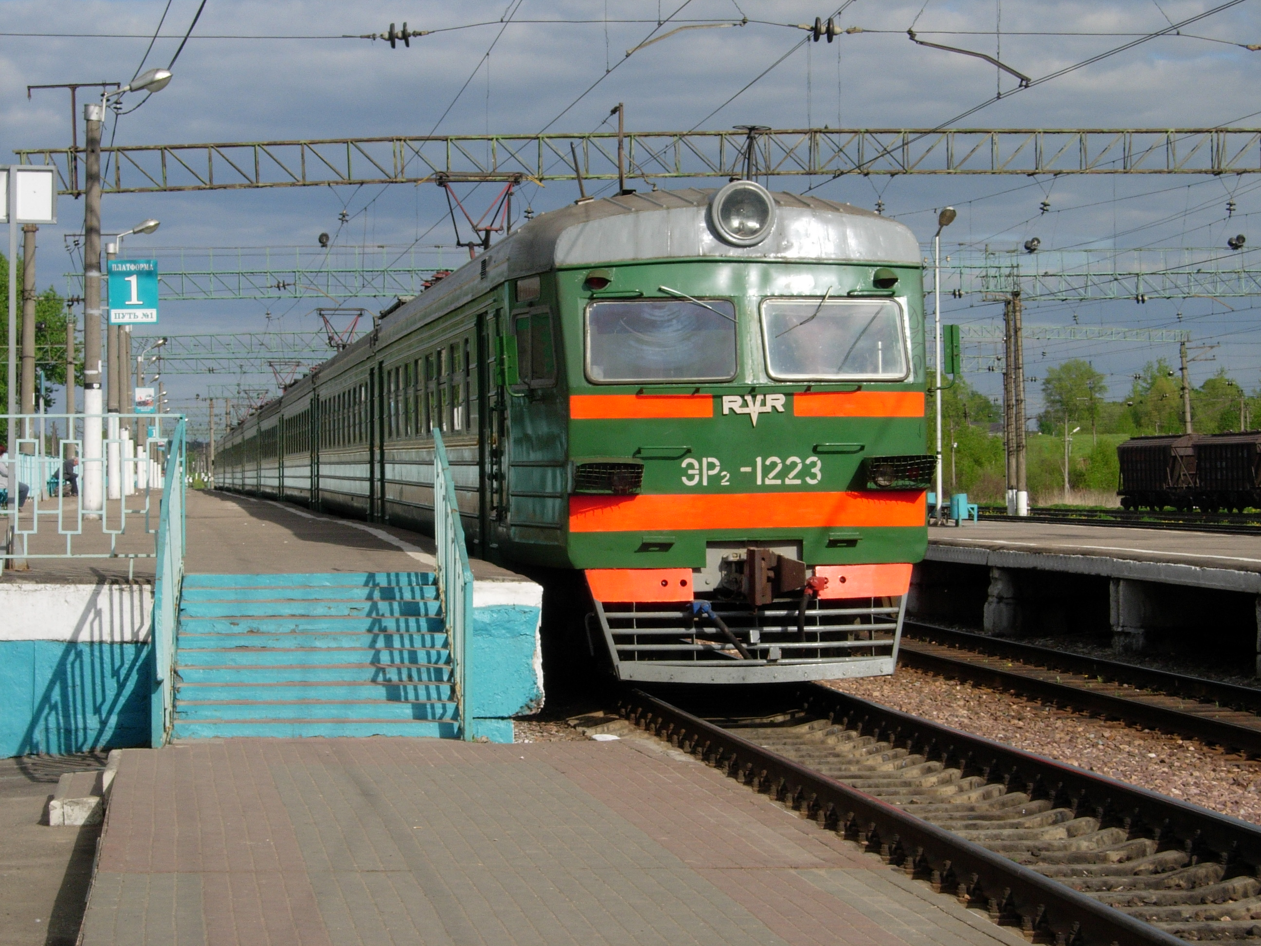 ER2 electric train, a widely used passenged suburban train in Russia